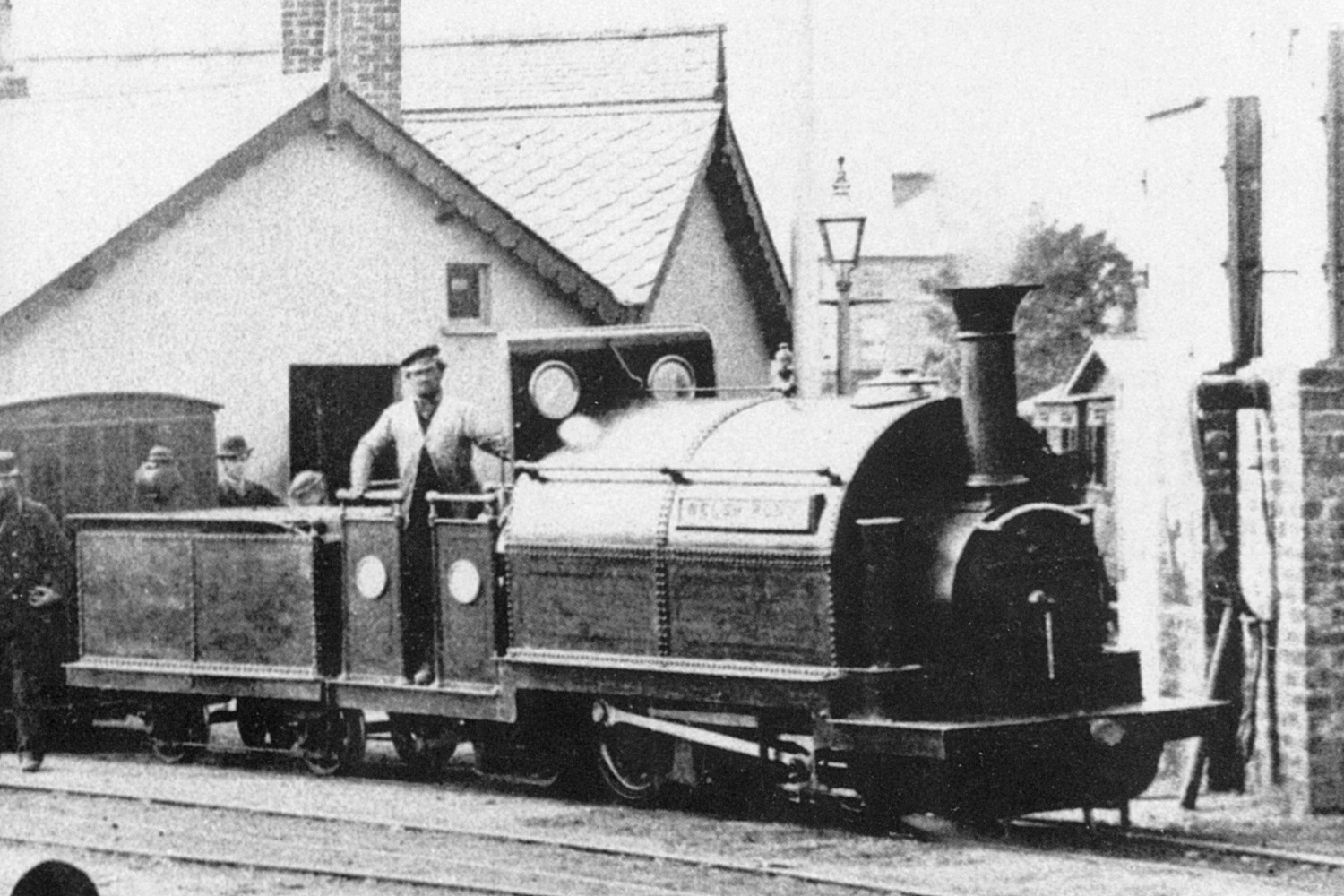 Festiniog Railway George England locomotive "Welsh Pony" at Porthmadog harbour station